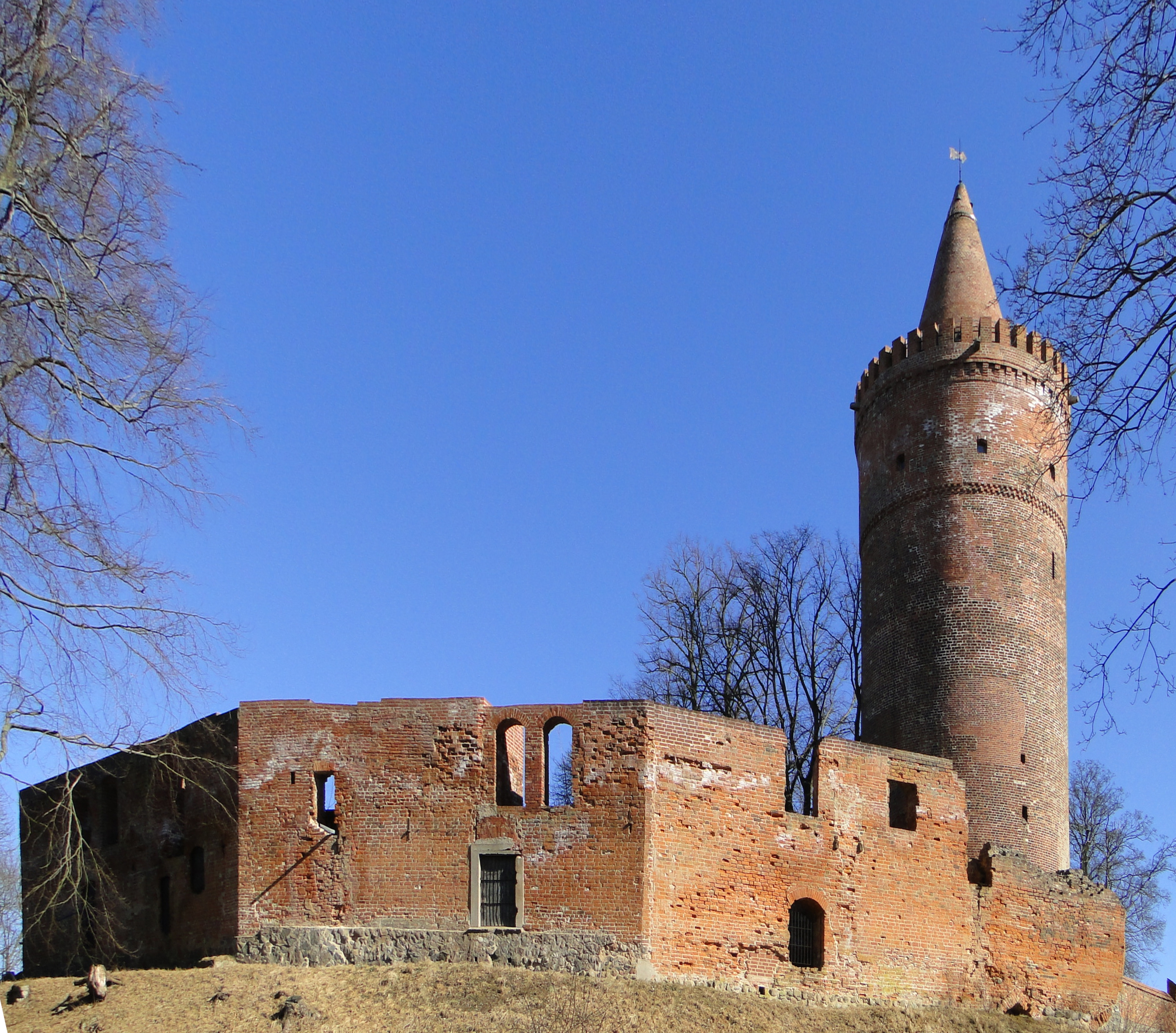 Castle in Burg Stargard, district Mecklenburg-Strelitz, Mecklenburg-Vorpommern, Germany